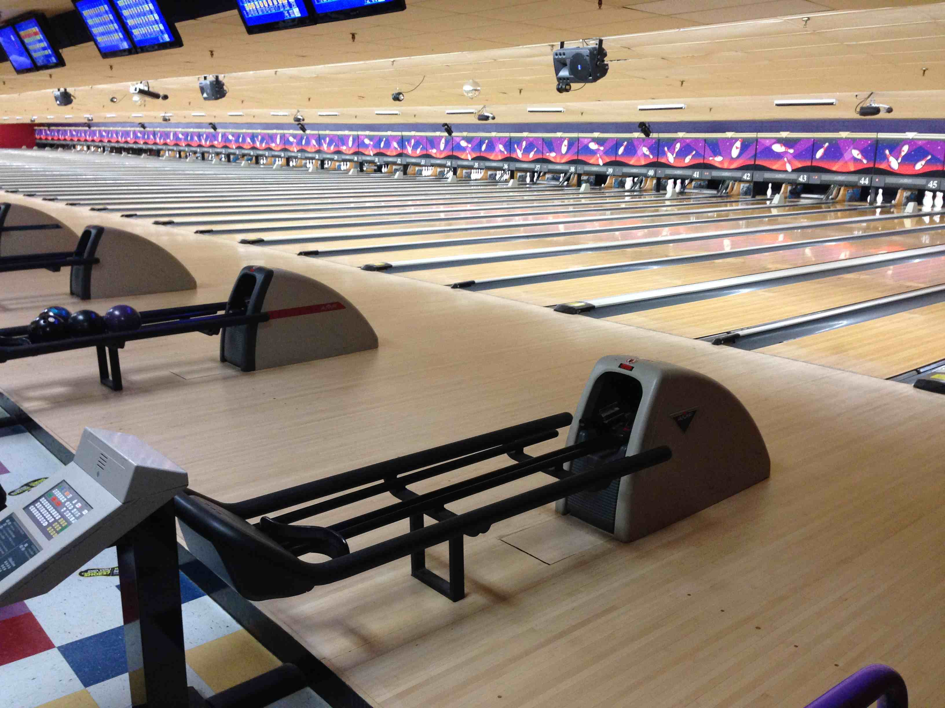 AMF Auburn Lanes, in Auburn. Interior is typical of AMF-branded bowling centers in the US that use AMF pinsetters.